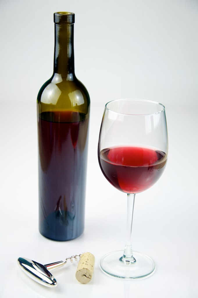 Glass of Red Wine with a bottle of Red Wine shot on a white background.